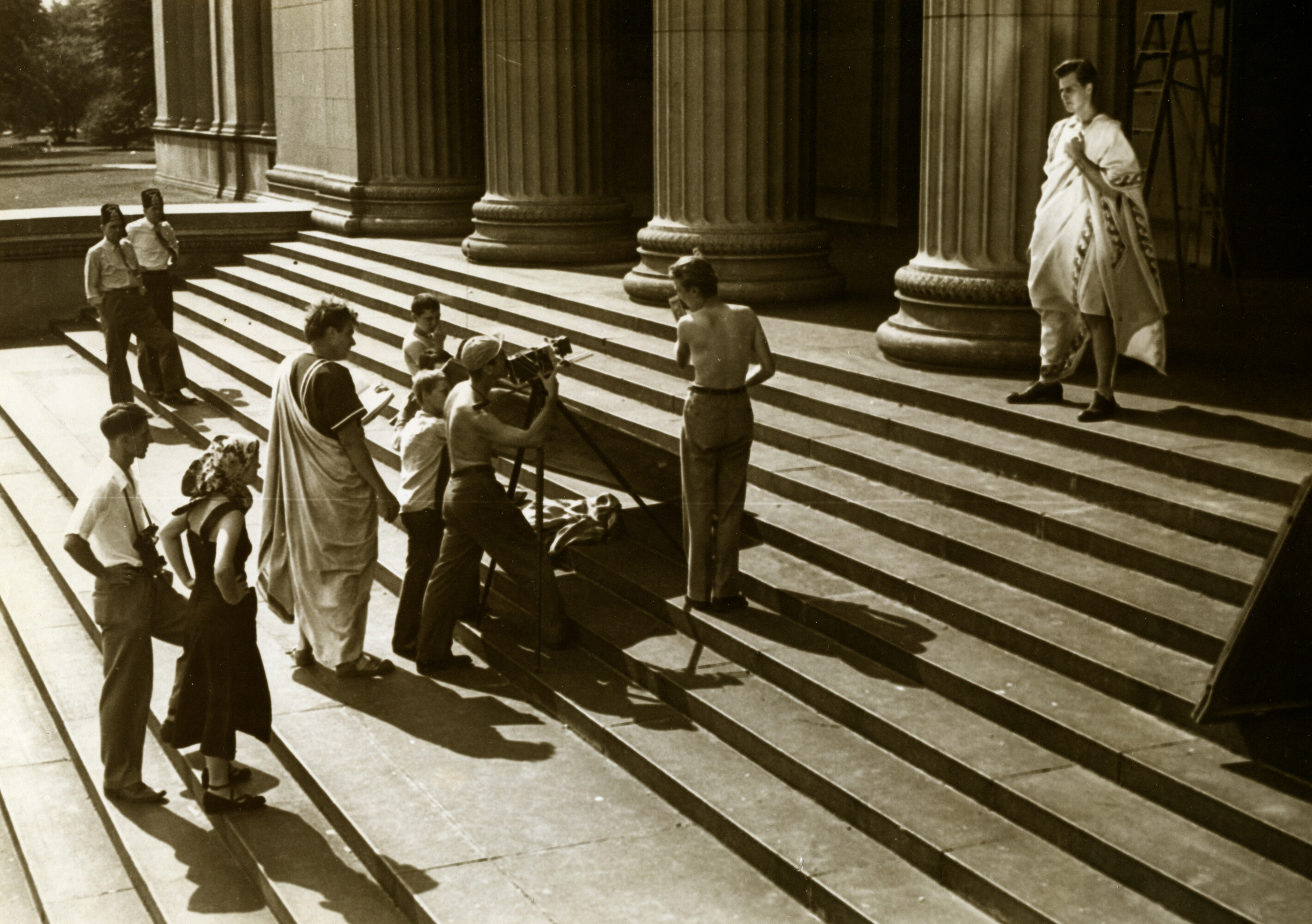 Production scene from the play Julius Caesar. 1950. The location is Chicago's Museum of Science & Industry. Other images by this contributor - Use this image as needed, but for uses other than personal, please credit as "Photo by Chalmers Butterfield".